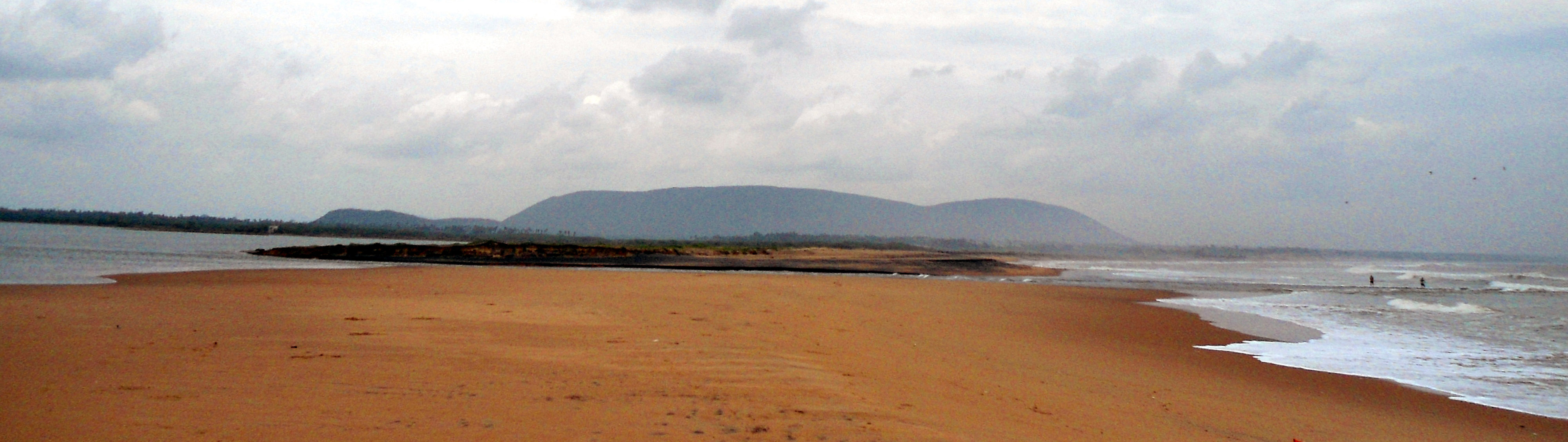 Gosthani River Estuary at Bheemunipatnam in Visakhapatnam District, Andhra Pradesh, India